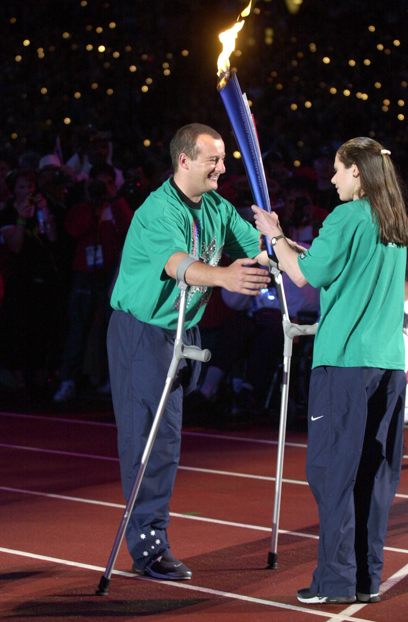 Australian paralympians Michael Milton and Lisa Llorens during the torch relay at the Sydney Paralympic Games Opening Ceremony